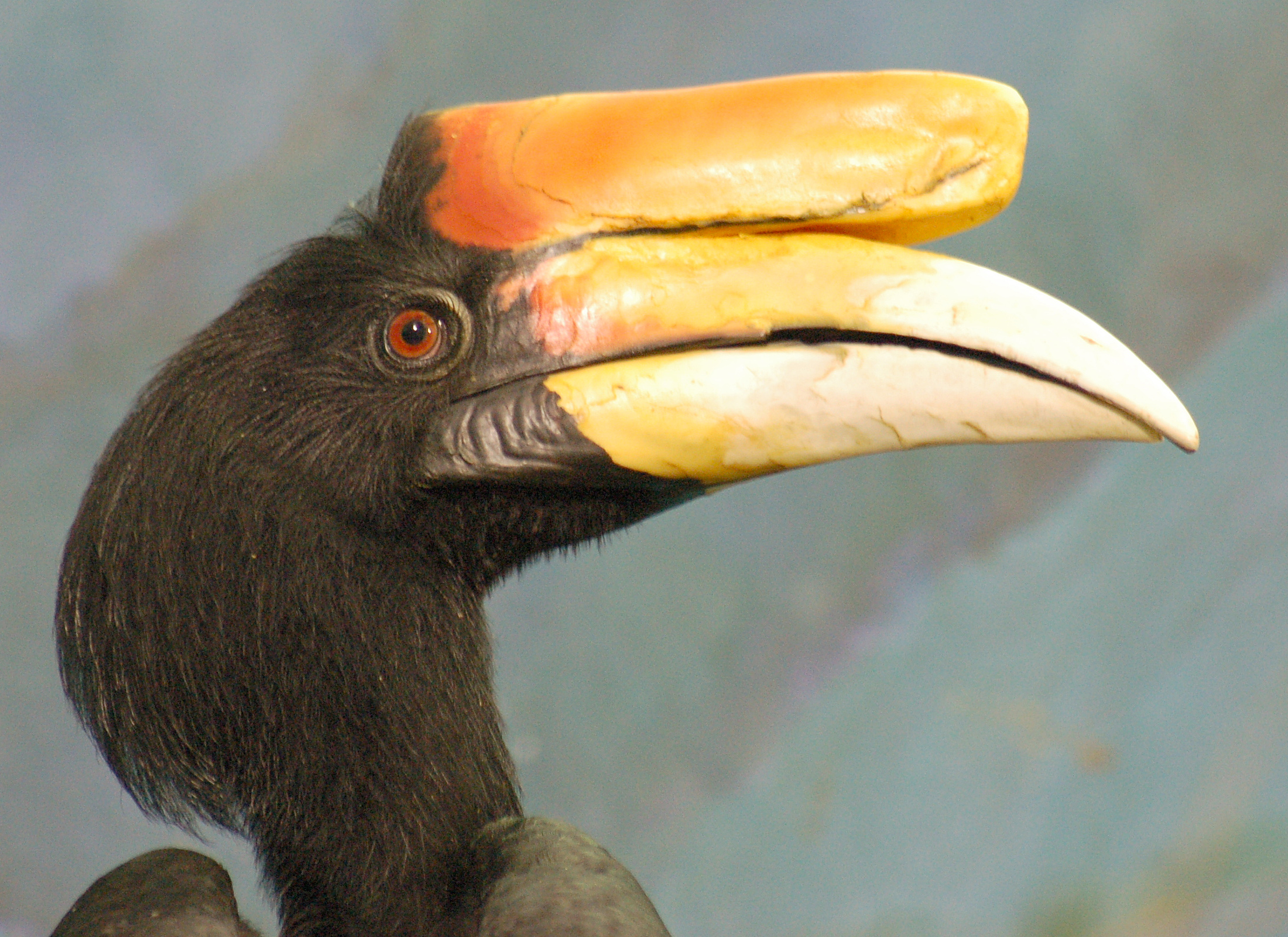 A photograph of Rhinoceros Hornbillen (Buceros rhinoceros en ). Photo taken at the National Aviary.